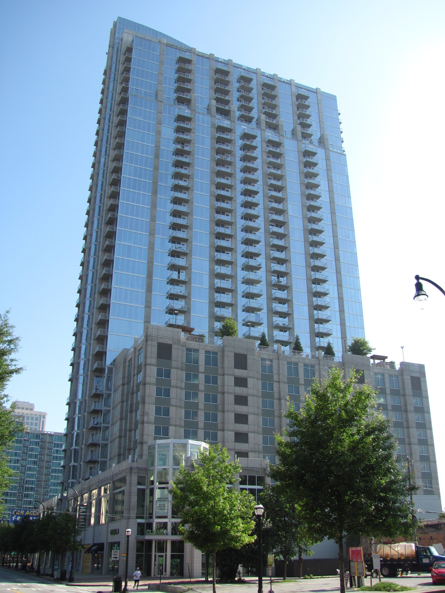 Viewpoint, Midtown Atlanta Georgia, May 2010